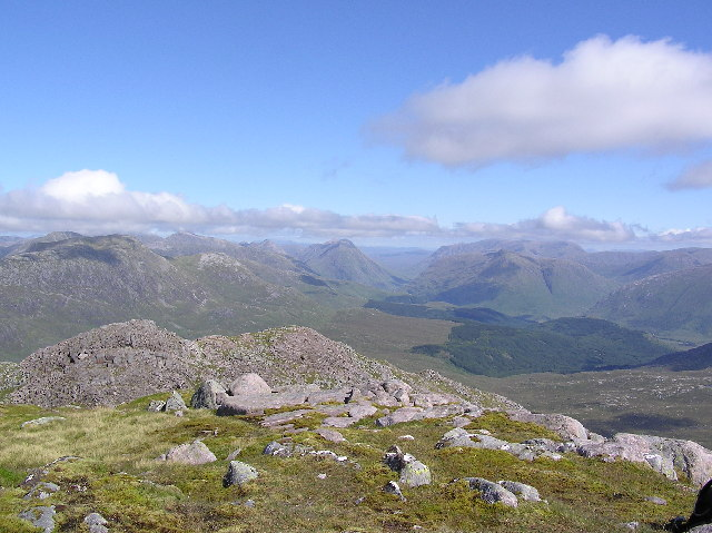 Summit view of Beinn Sgulaird. View from Beinn Sgulaird towards Glen Etive